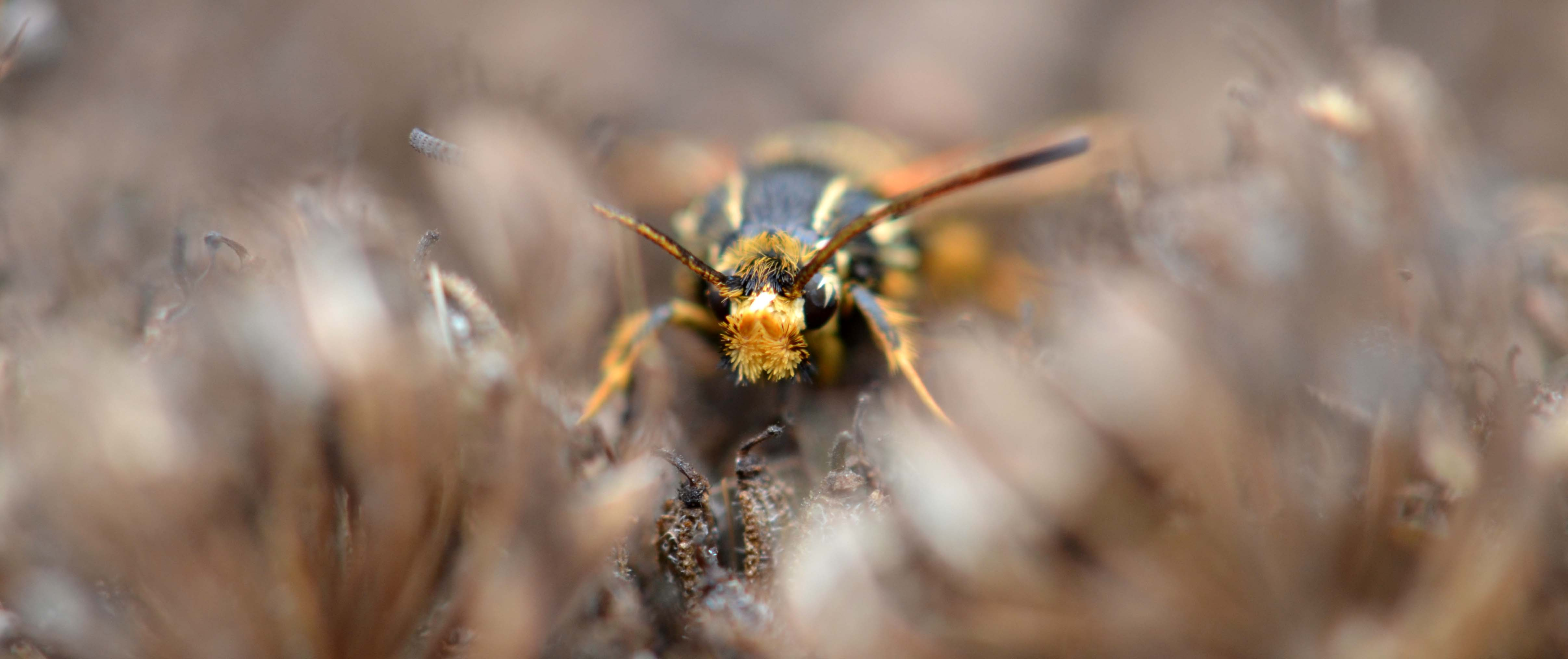 Bembecia ichneumoniformis ([Denis & Schiffermüller], 1775), (or closely related species?). photographed at the top of beach and near the cliff in Morgat (Finistère, Britain, west of France).